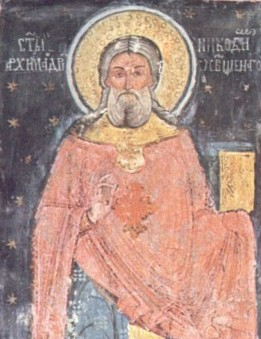 Icon of St. Nikodim of Prilep.